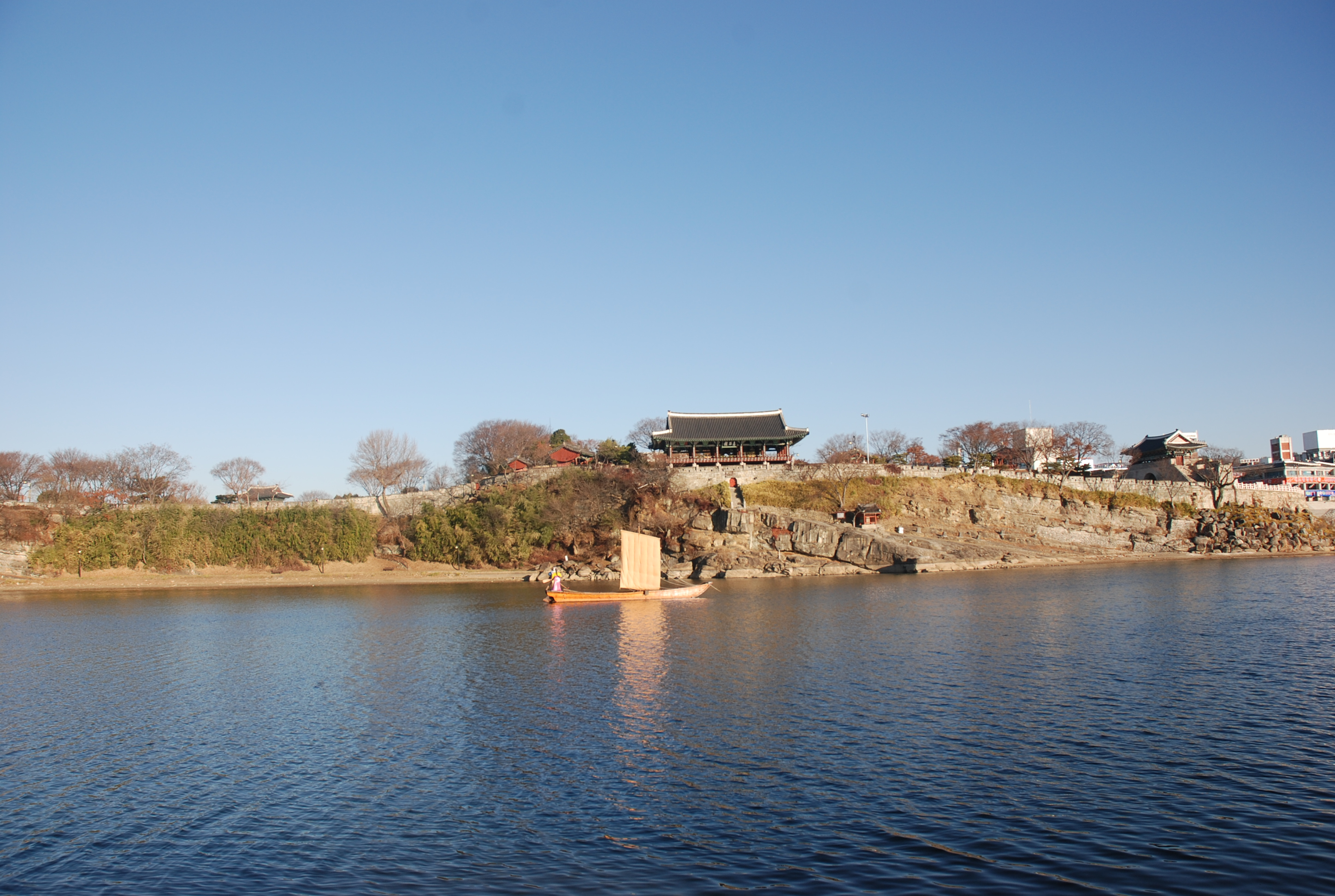 Jinju castle along Nam river.